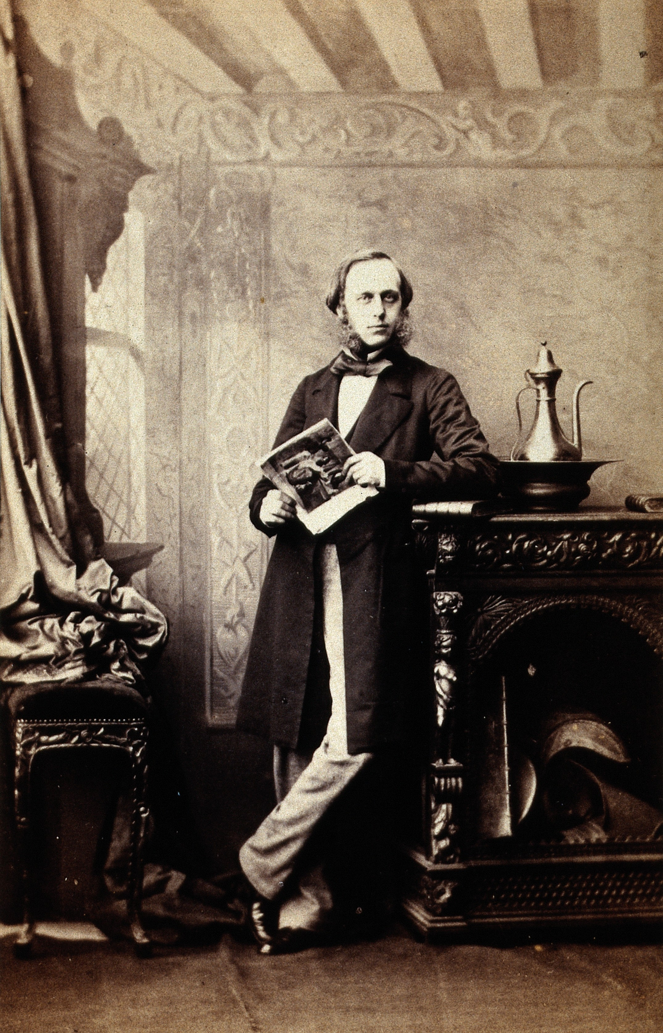 Sir William Overend Priestley. Photograph by Silvy. Iconographic Collections Keywords: portrait photographs; William Overend Priestley